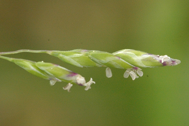 Picture taken in Commanster, Belgian High Ardennes . Species: Poa annua